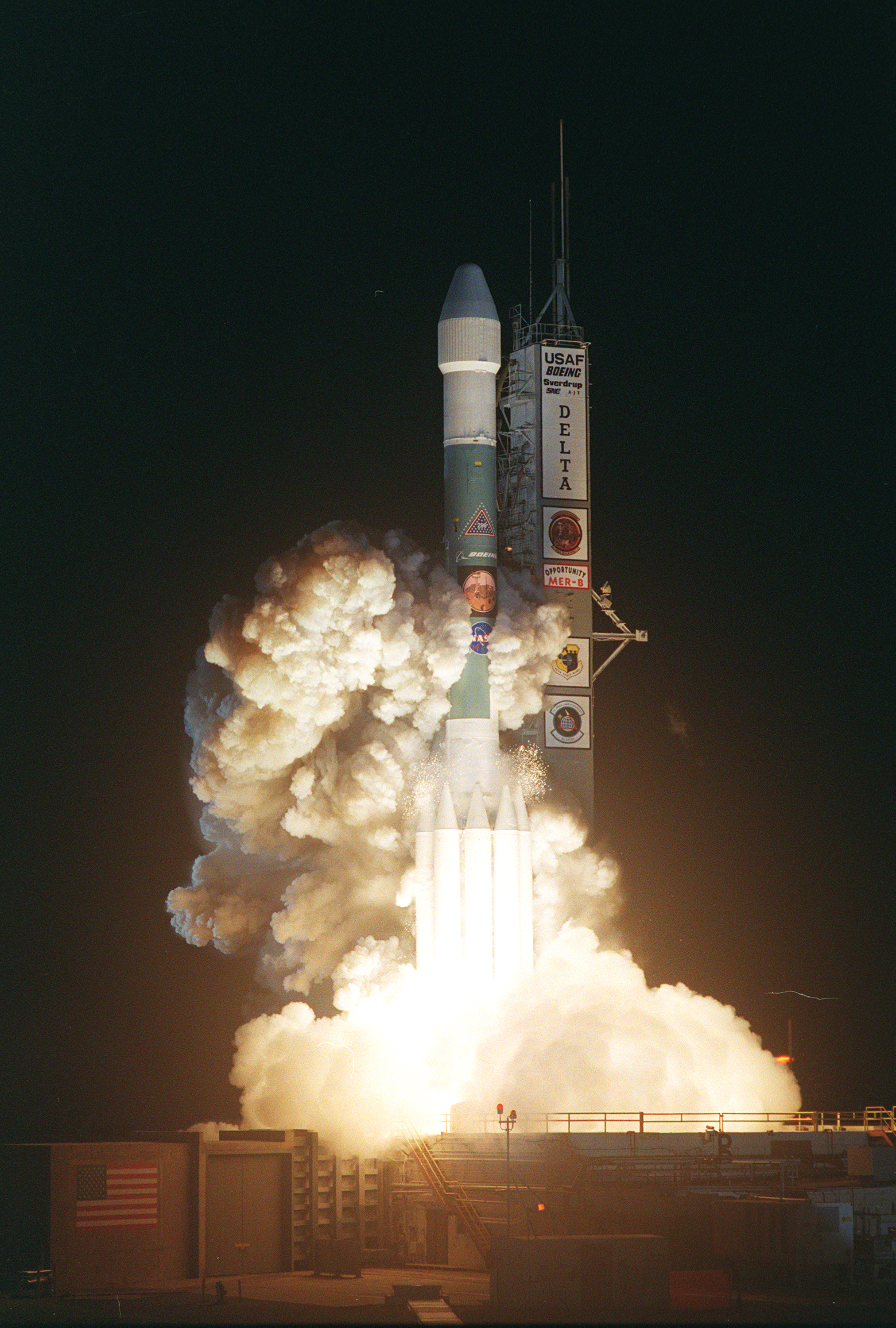 NASA launches its second Mars Exploration Rover, Opportunity, aboard a Delta II launch vehicle. The bright glare briefly illuminated Florida Space Coast beaches. Opportunity’s dash to Mars began with liftoff at 11:18:15 p.m. Eastern Daylight Time from Cape Canaveral Air Force Station, Fla. The spacecraft separated successfully from the Delta's third stage 83 minutes later, after it had been boosted out of Earth orbit and onto a course toward Mars.